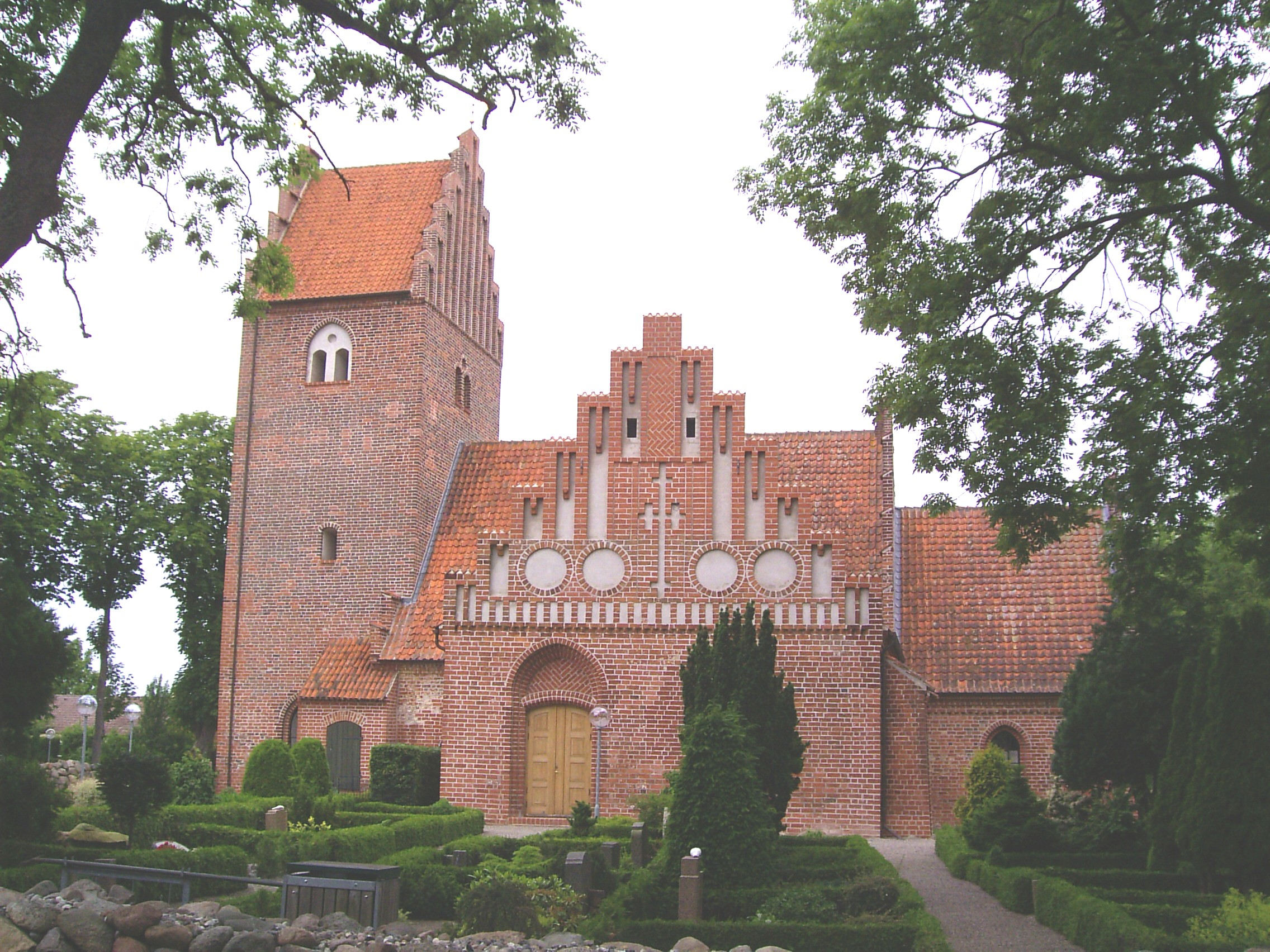 Church in Majbølle, Community of Sakskøbing, diocese of Lolland-Falster. Date: 2006.07.12 Author: Sir48